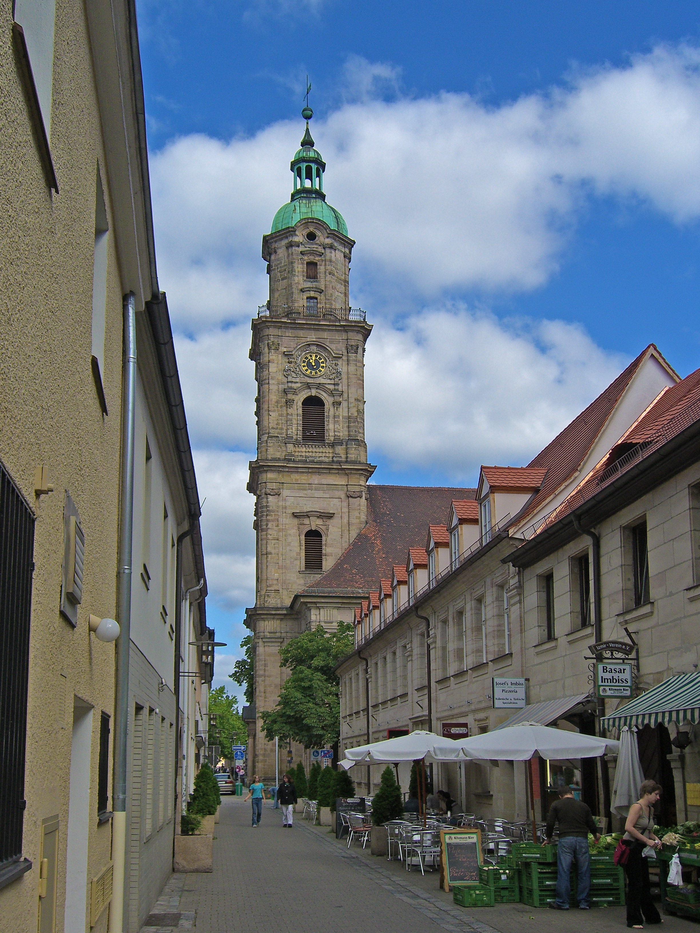 The tower of the Neustädter Kirche (New Town Church) viewed from the Kammererstraße (Kammerer street) in Erlangen, Germany.